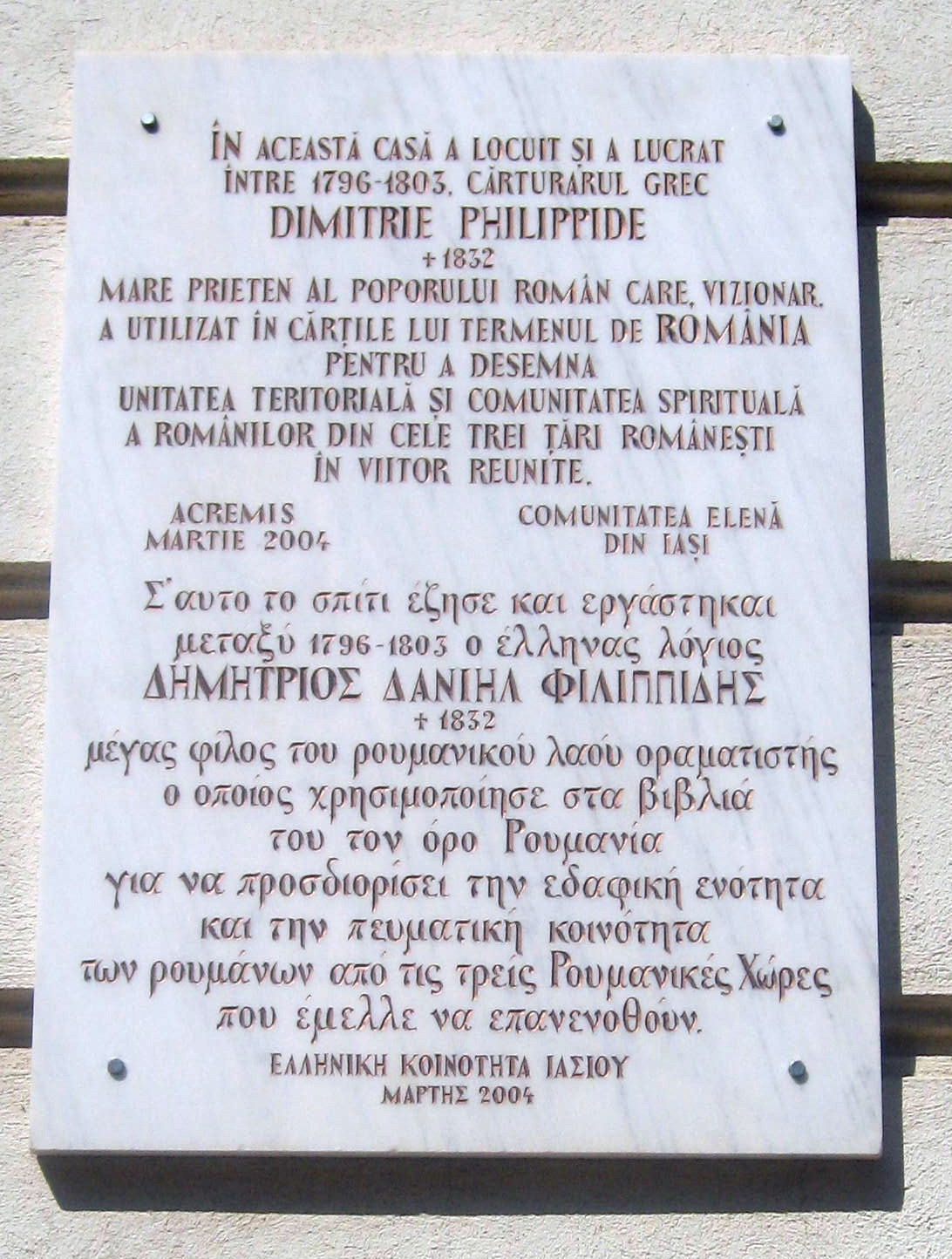 Bals-Sturza House in Iasi